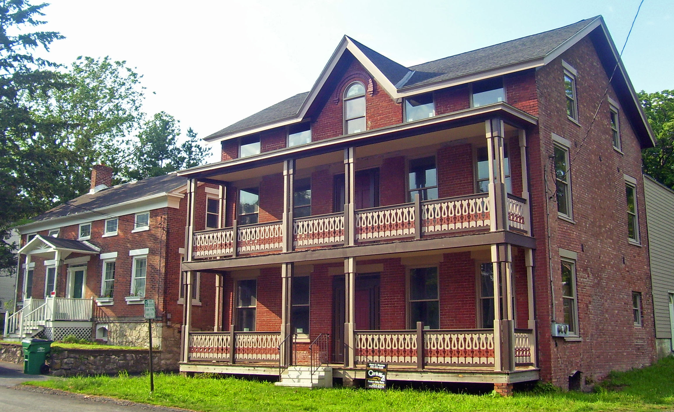 Mid-19th century Greek Revival brick houses, part of the Main Street Historic District in New Hamburg, NY, USA